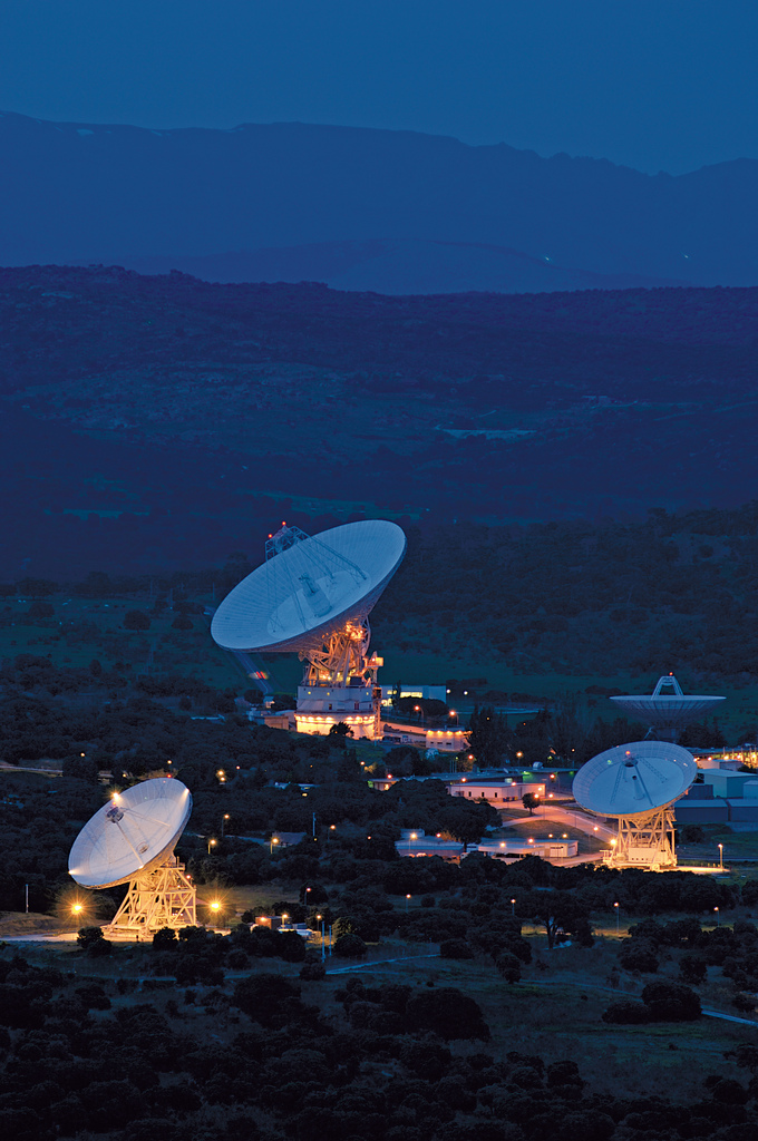 NASA Deep-Space Satellite Tracking Station. Robledo de Chavela. Madrid Deep Space Communication Complex and Robledo_de_Chavela This photograph can be used for publications, including this copyright statement: “©PromoMadrid, author Max Alexander”. Esta fotografía puede usarse en publicaciones, incluyendo la declaración “©PromoMadrid, autor Max Alexander”.